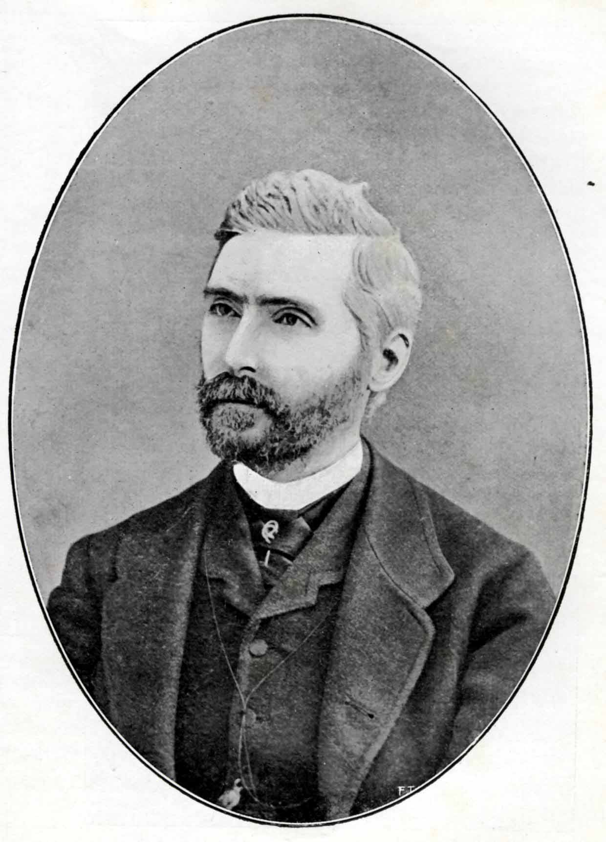 Photography of Carlo Tenca